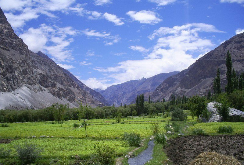 Hassanabad Chorbat Baltistan